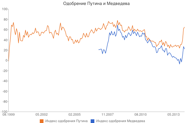 Endorsement Index of Putin and Medvedev (1999-2014) according to Levada Center polling data